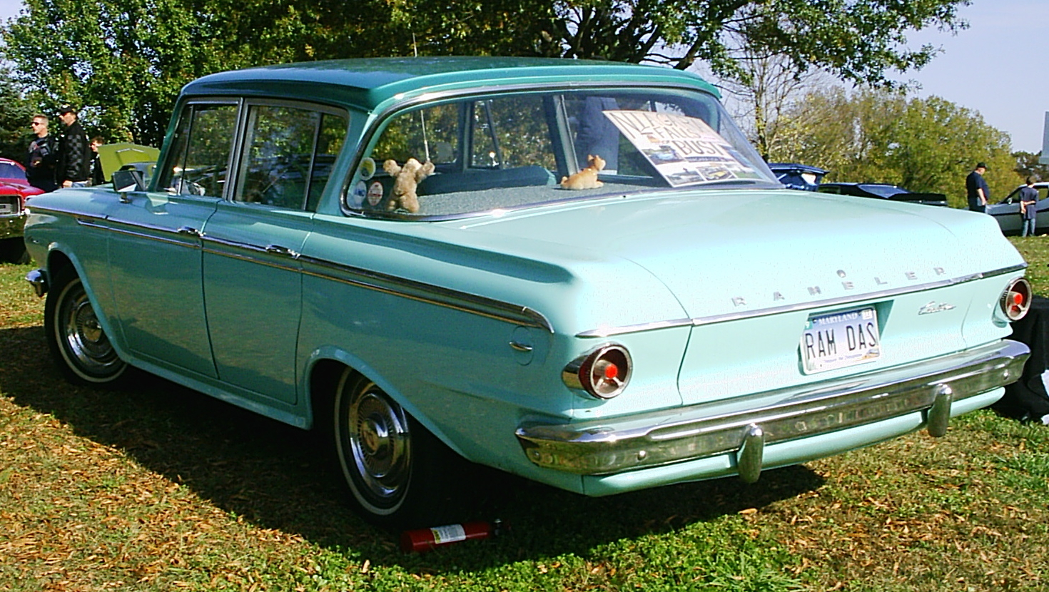 1962 Rambler Classic four-door sedan finished in two-tone green.